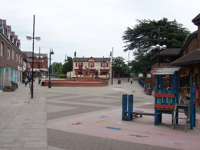 Red Lion in Bitterne Precinct Southampton Thirty or so years ago this was a very busy junction of two main roads, but with the construction of the Bitterne Bypass, it is now a pedestrian precinct, with the old Red Lion an oasis of calm.